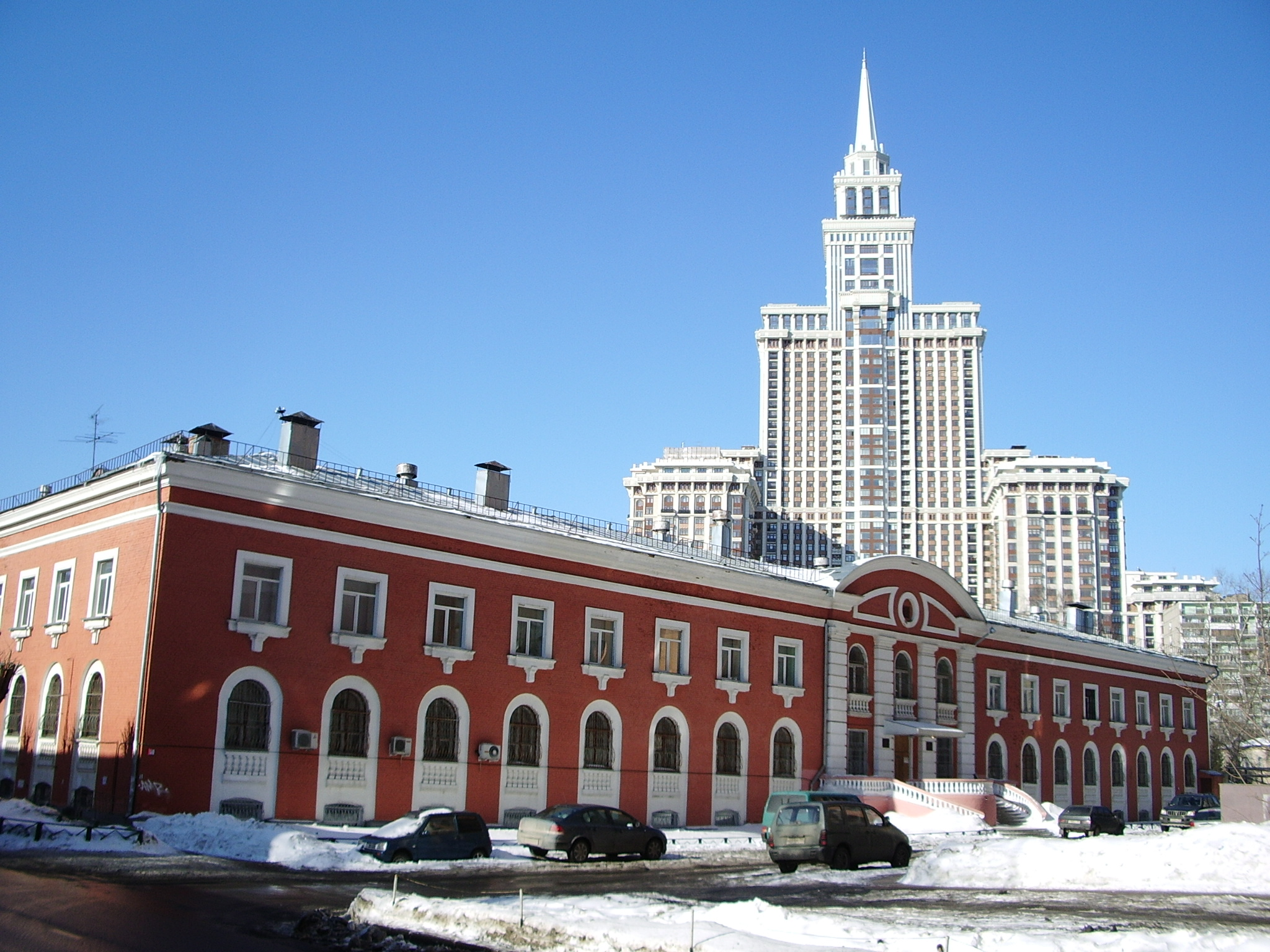 Viktorenko street, 10. Moscow.